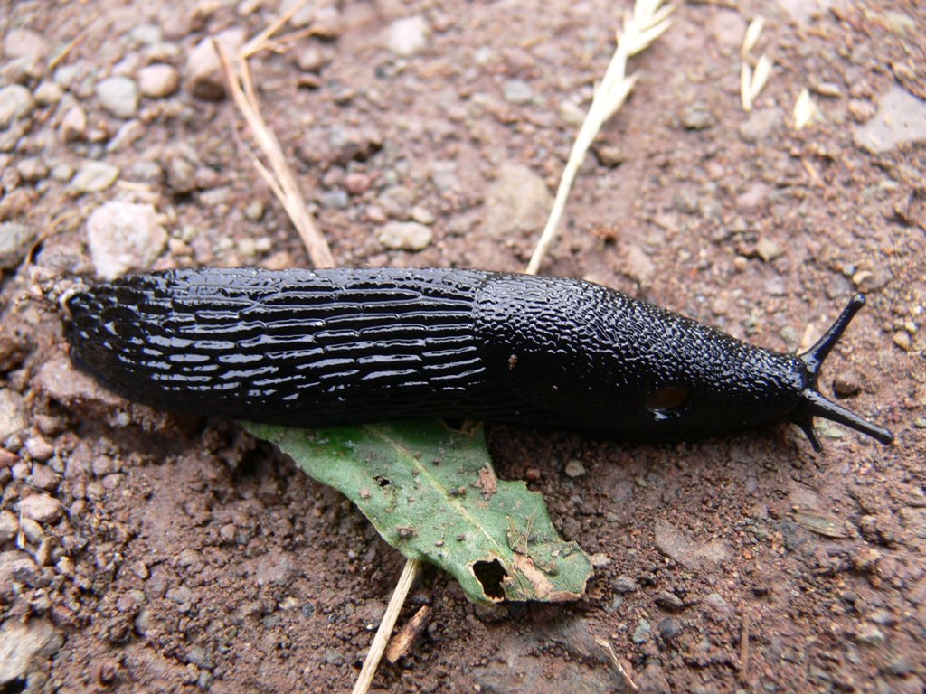 Black Slug (Arion ater) on rotting vegetation